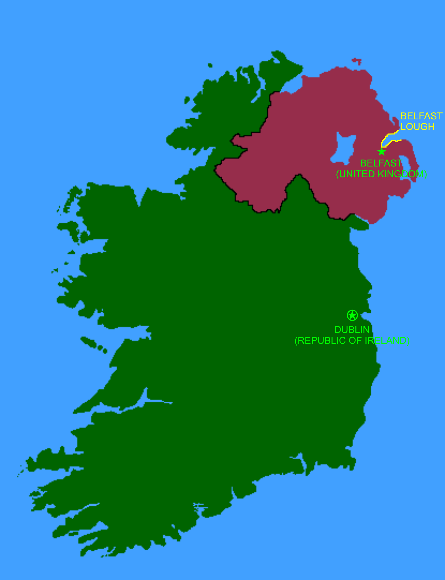 Image created from original by WikiDon. Edited with CorelDraw 12.